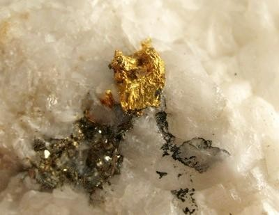 Gold, Quartz Locality: Atlantic Cable Mine (Cable Mine), Georgetown District (Southern Cross District; Cable District), Deer Lodge County, Montana, USA (Locality at ) Size: 6.3 x 5.9 x 3.3 cm. A bright, richly burnished, 6 mm gold crystal cluster perched atop milky quartz from the much less well-known Atlantic Cable (Cable) Mine of Montana. This mine was located in 1866 and not mined for very long. Old, historic, seldom available material. Ex. Smithsonian Collection, with label.